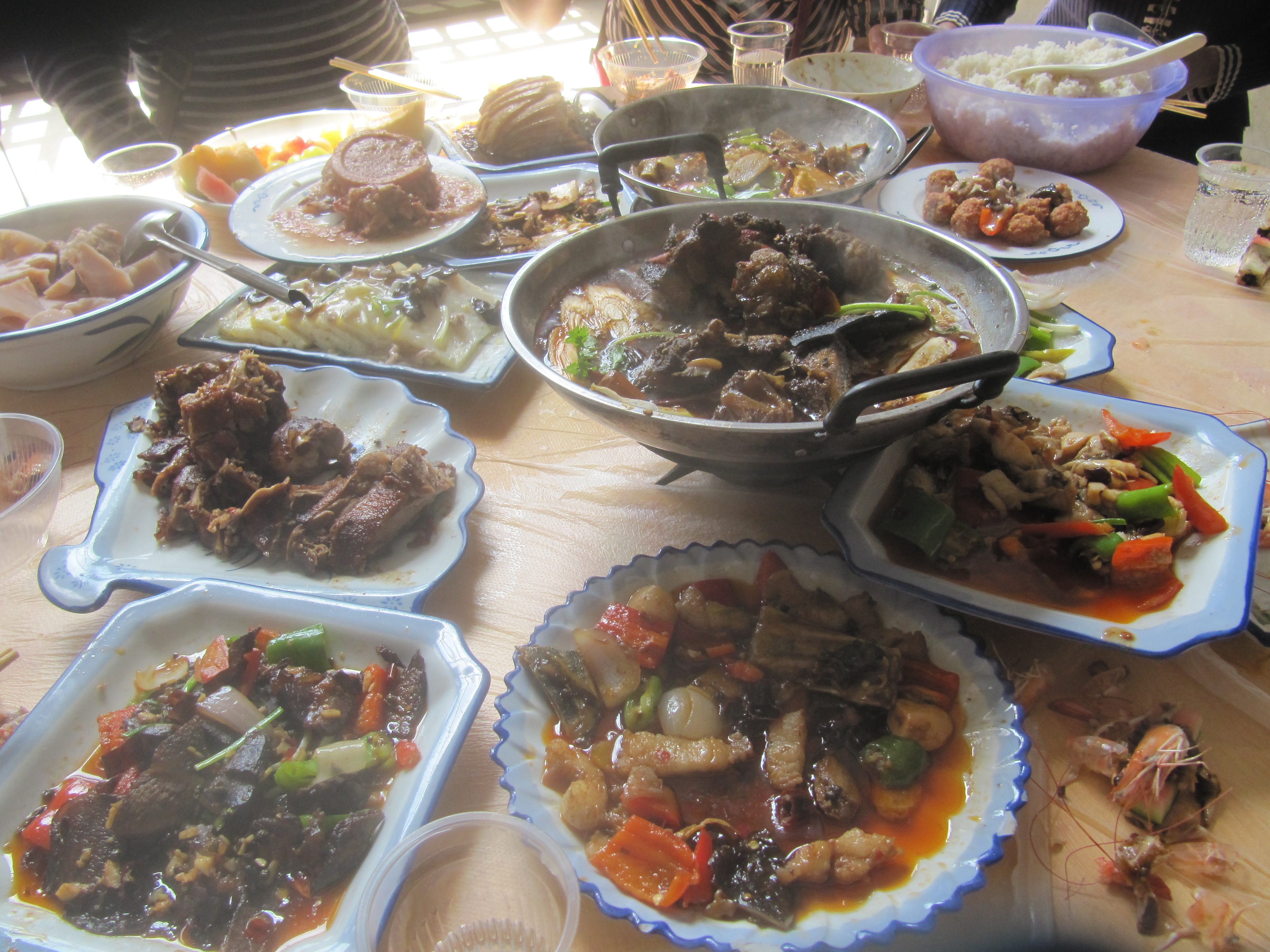 Misc dishes from Jingzhou, Hubei province, China.